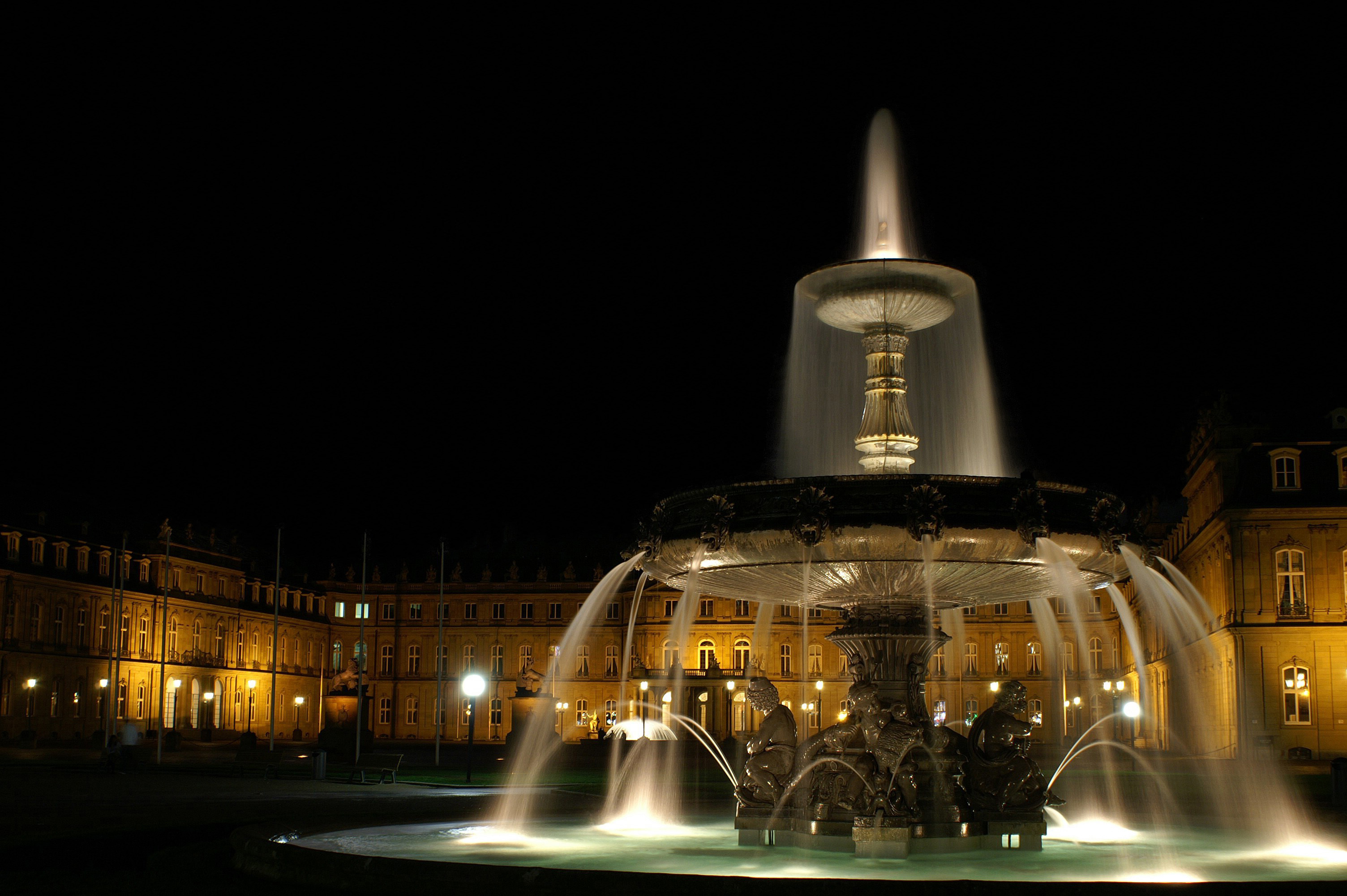 this is in the square from Stuttgart city centre.